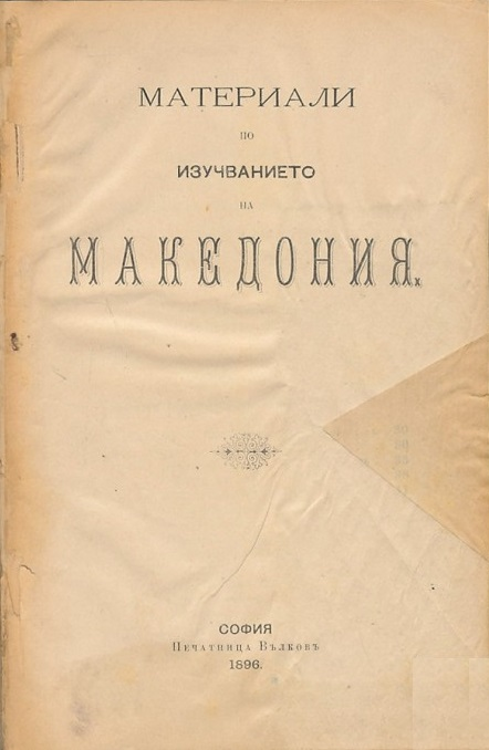 Материали по изучаванието на Македония